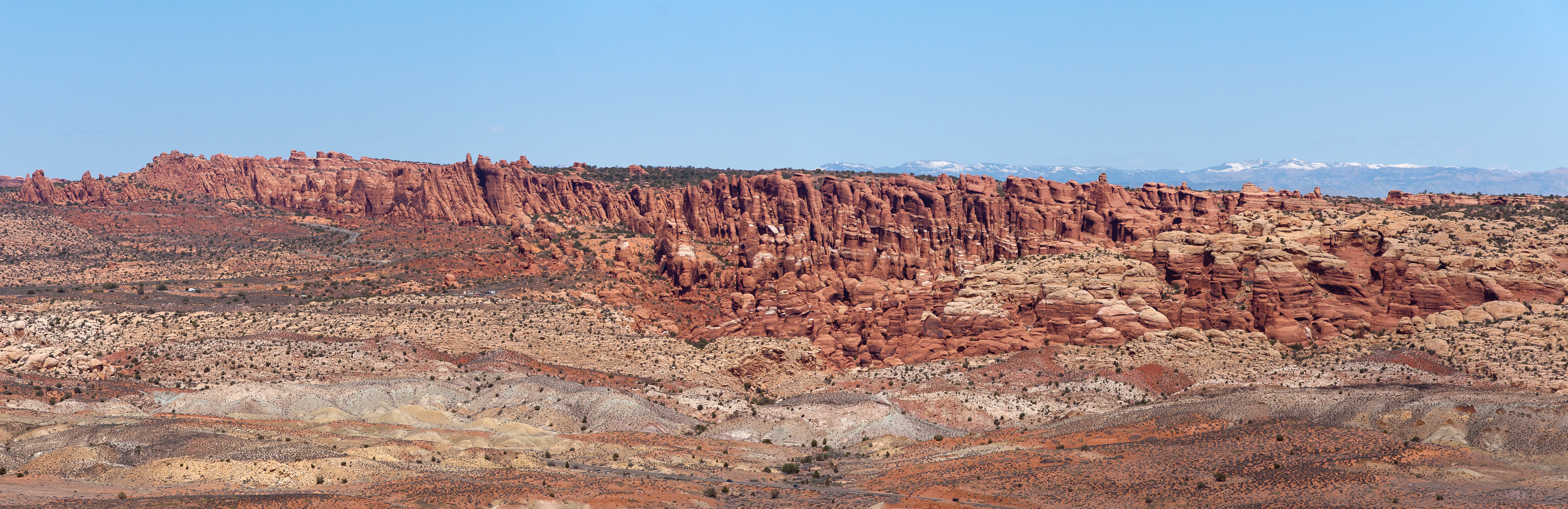 Arches National Park : Fiery Furnace Panorama